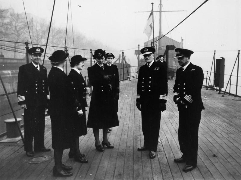 The Duchess of Kent Visits HMS President. 15 March 1943, Wearing the Uniform of Commandant of the Wrns, the Duchess of Kent Paid An Informal Visit To HMS President. On extreme left is Captain R D Binney, CBE, RN, The Duchess of Kent, Admiral Sir Martin R Dunbar Nasmith, and Commander H C C Clarke, DSO, RN.